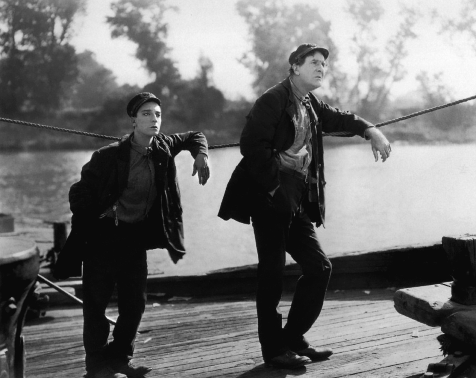 Buster Keaton and Ernest Torrence in Steamboat Bill, Jr. (1928) - cropped screenshot